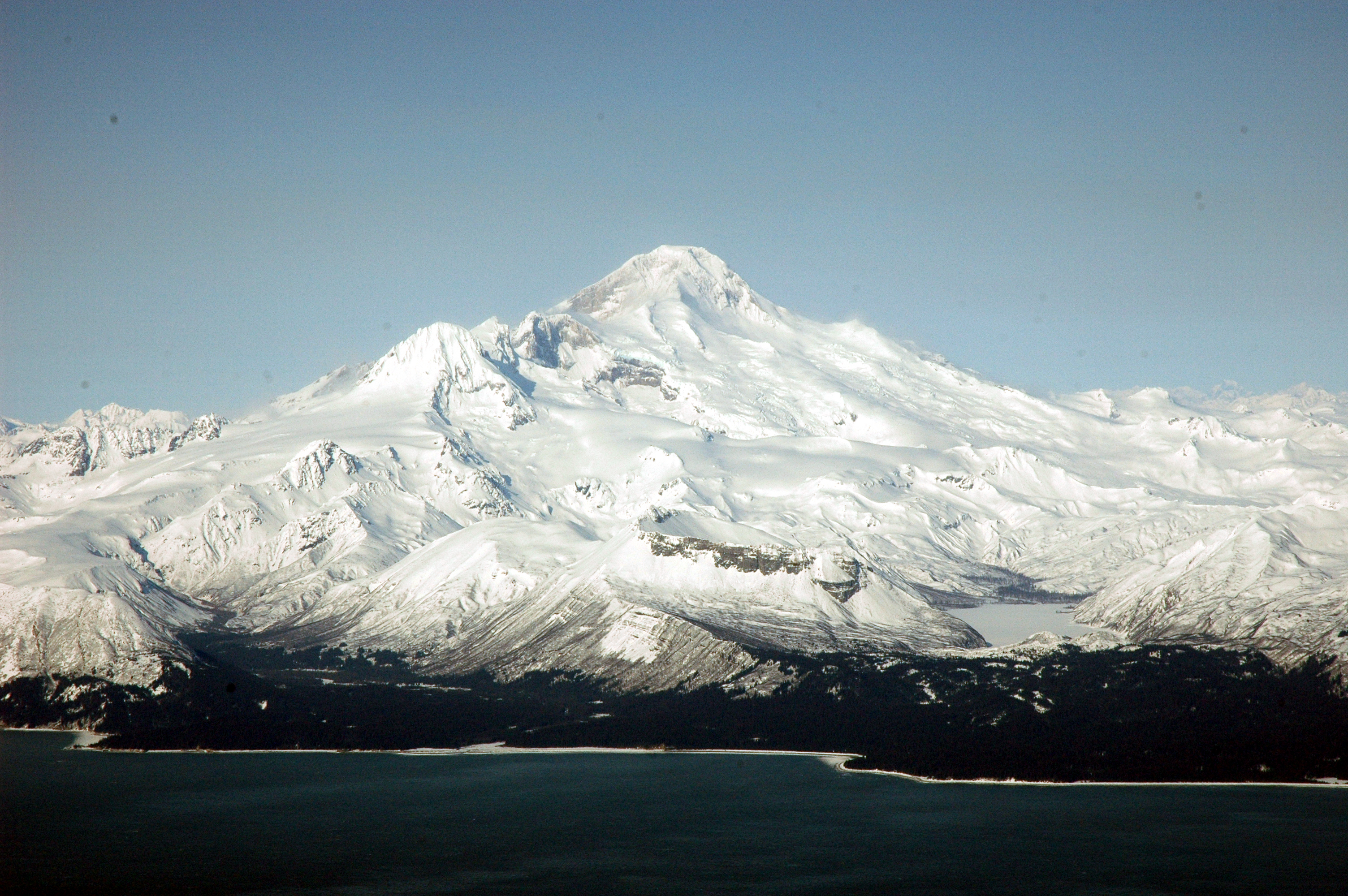 Iliamna volcano as viewed from the east during the flight to and from Augustine.